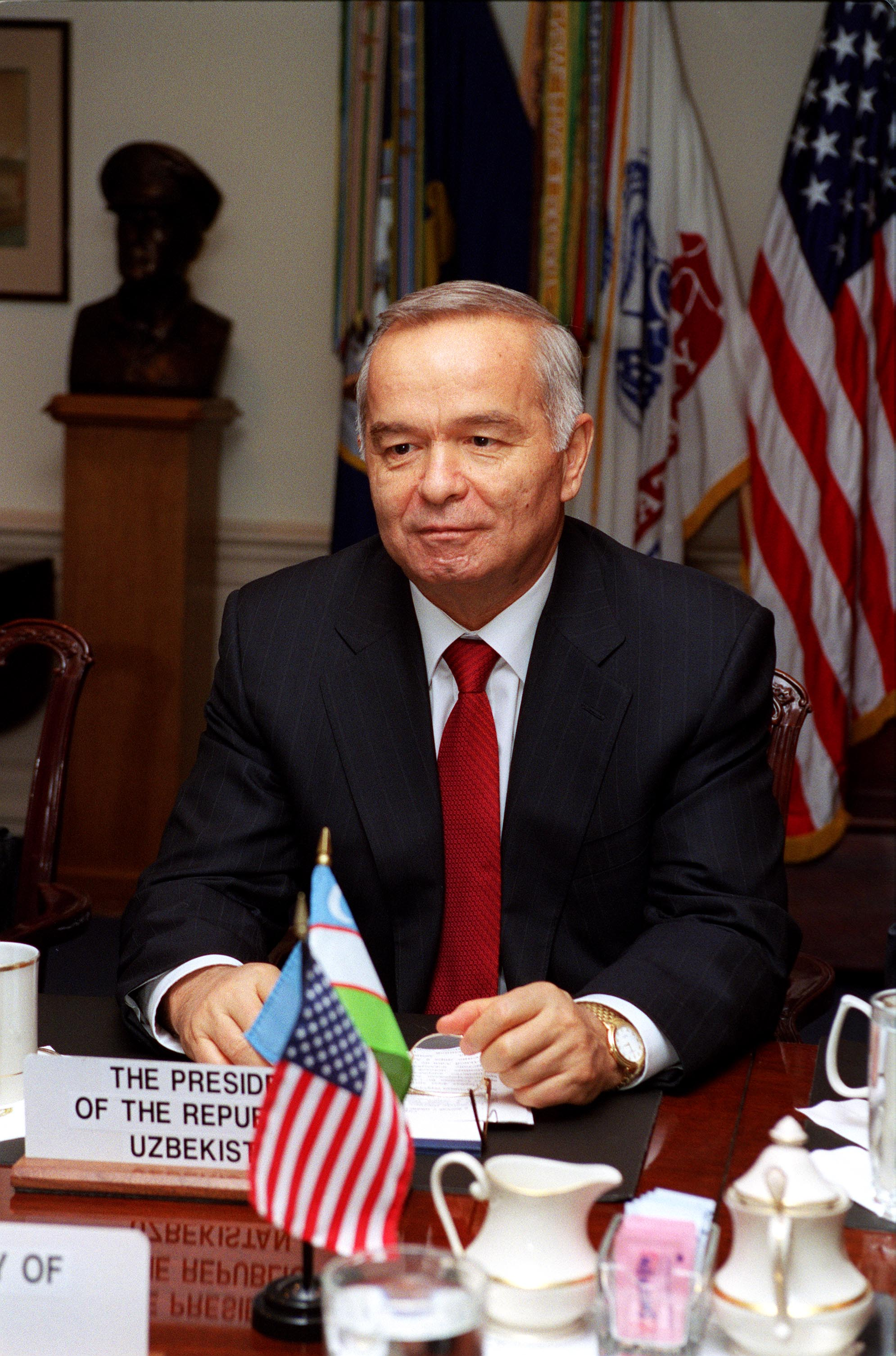 Uzbekistan President Islam Karimov meets with Secretary of Defense Donald H. Rumsfeld in the Pentagon on March 13, 2002. Karimov and Rumsfeld are meeting to discuss the war on terrorism and regional security issues.